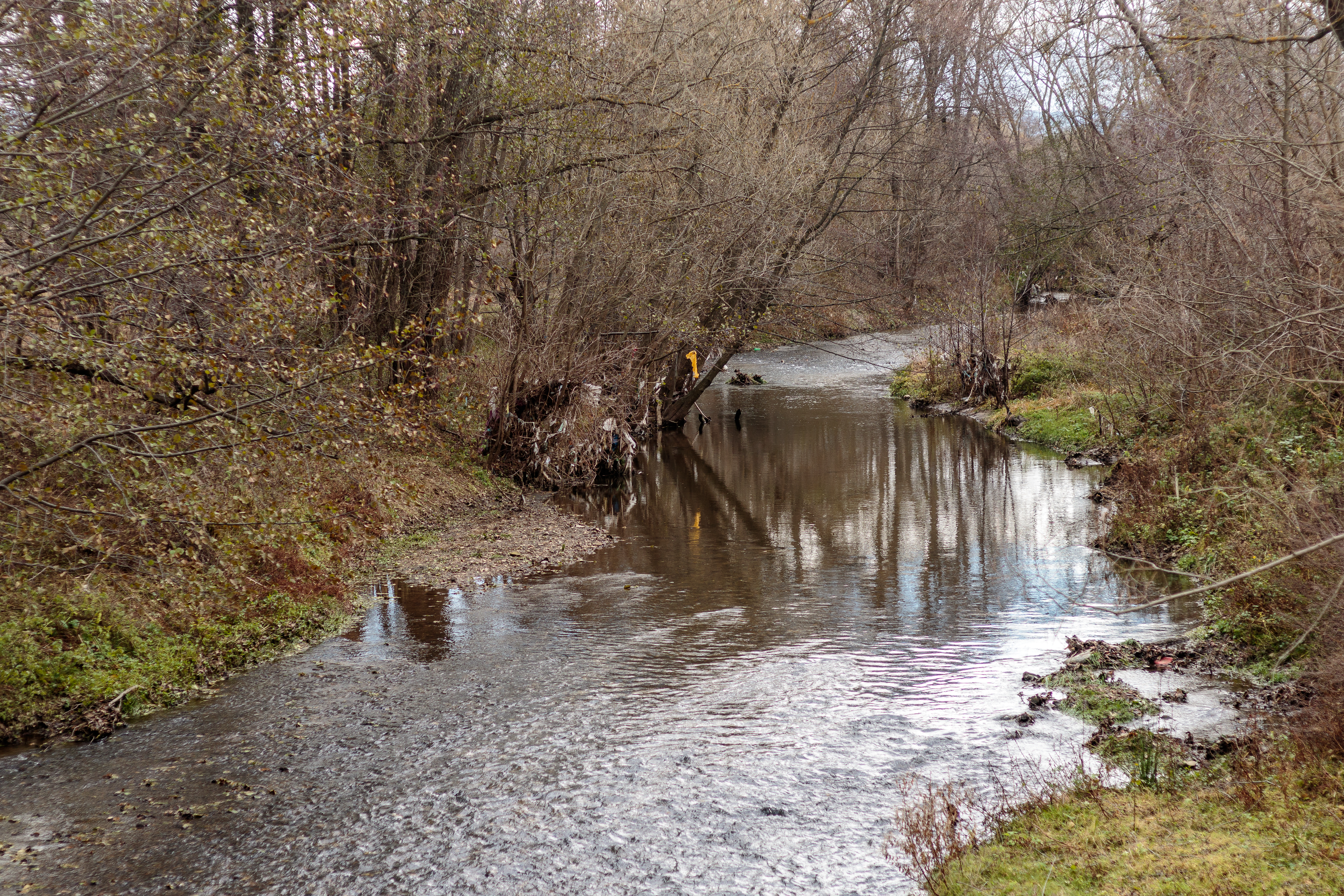 Bregalnica near the village of Mačevo, Maleševija, Macedonia